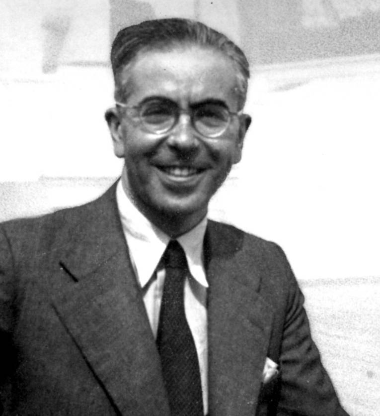 Justus Bier (1899–1990)